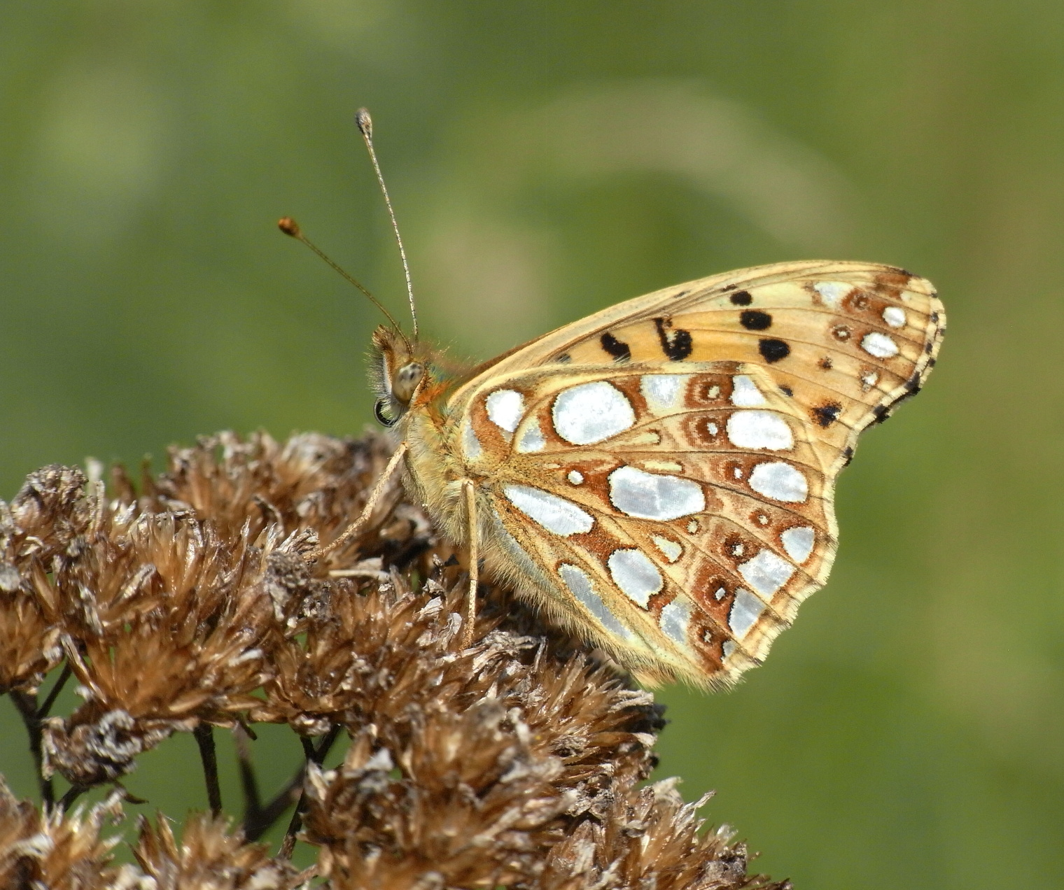 Queen of Spain Fritillary (Issoria lathonia) near Hamburg, Germany.